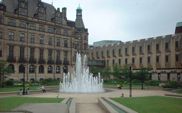 The Peace Gardens, Sheffield, England. The building on the left is Sheffield Town Hall. The building on the right is the town hall extension that has now been demolished and replaced by the Winter Gardens and a hotel.